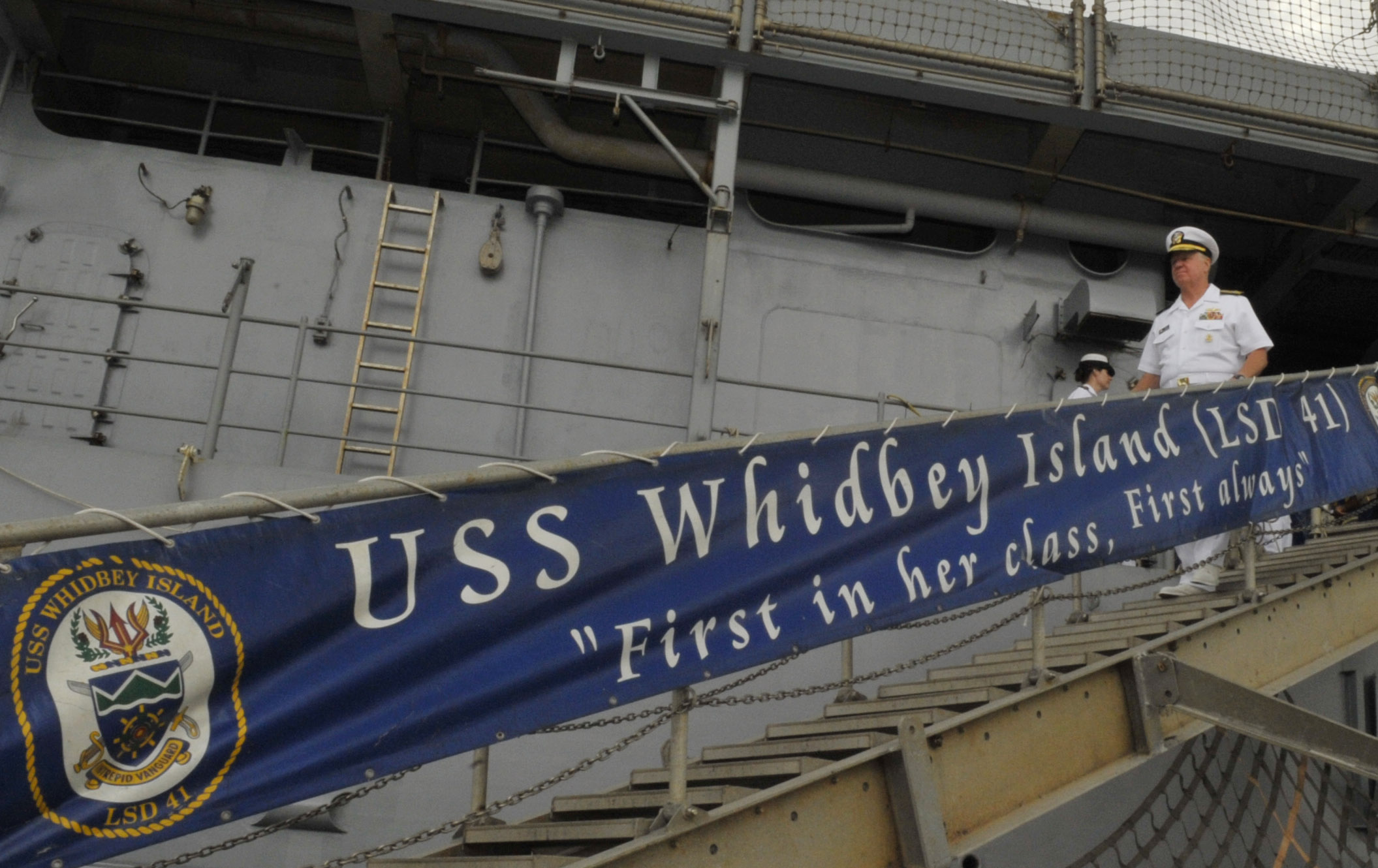 BOSTON (July 1, 2010) Chief of Naval Operations (CNO) Adm. Gary Roughead visits the amphibious dock landing ship USS Whidbey Island (LSD 41) during his trip to Boston. (U.S. Navy photo by Mass Communication Specialist 2nd Class Kyle P. Malloy/Released)